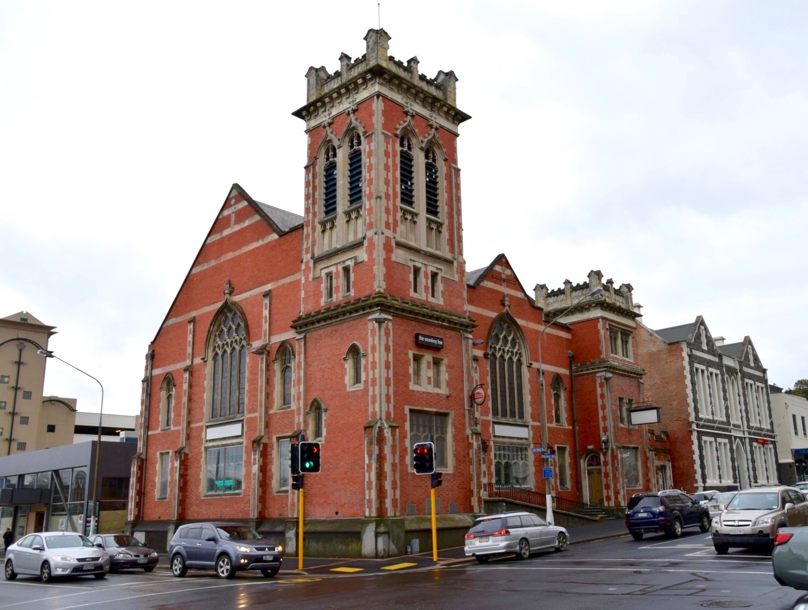 The Hanover Street Baptist Church, in Dunedin, from the east-northeast. The historic building was last used as a church in 1996.